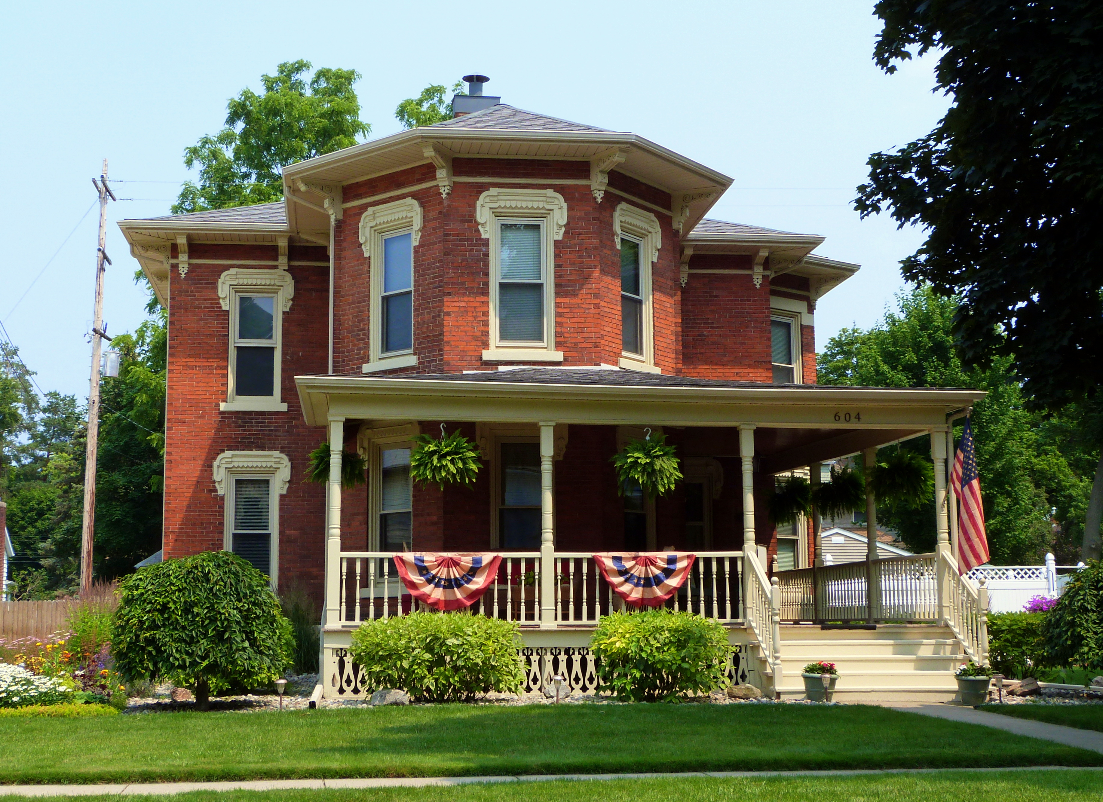 The historic Nathan Ayres House, located at 604 North Water Street in Owosso, Michigan, United States, is listed on the US National Register of Historic Places.